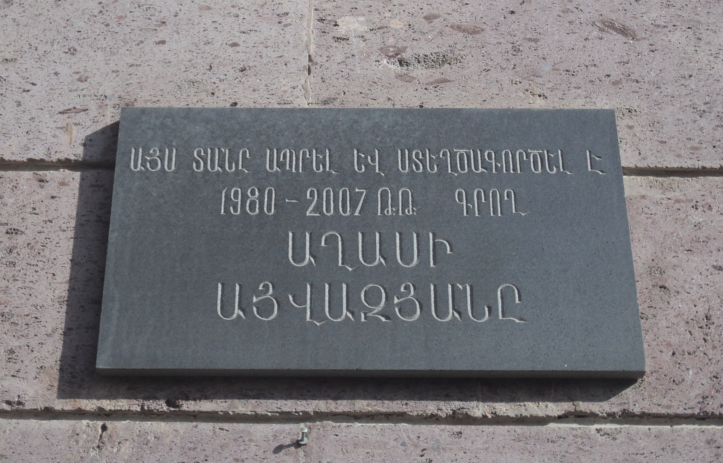 Aghasi Ayvazyan's plaquein Yerevan, Arabkir district